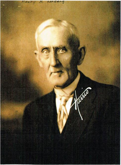 Photo of Henry A. Lorberg-Portsmouth historian (Harris Studio photography)